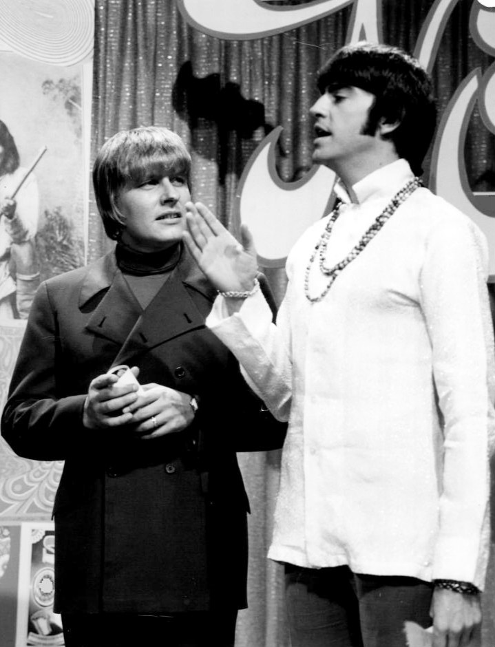 Photo of Paul Revere and Mark Lindsay from the television program Happening '68. The group had their own weekly television program on ABC from 1968 to 1969.